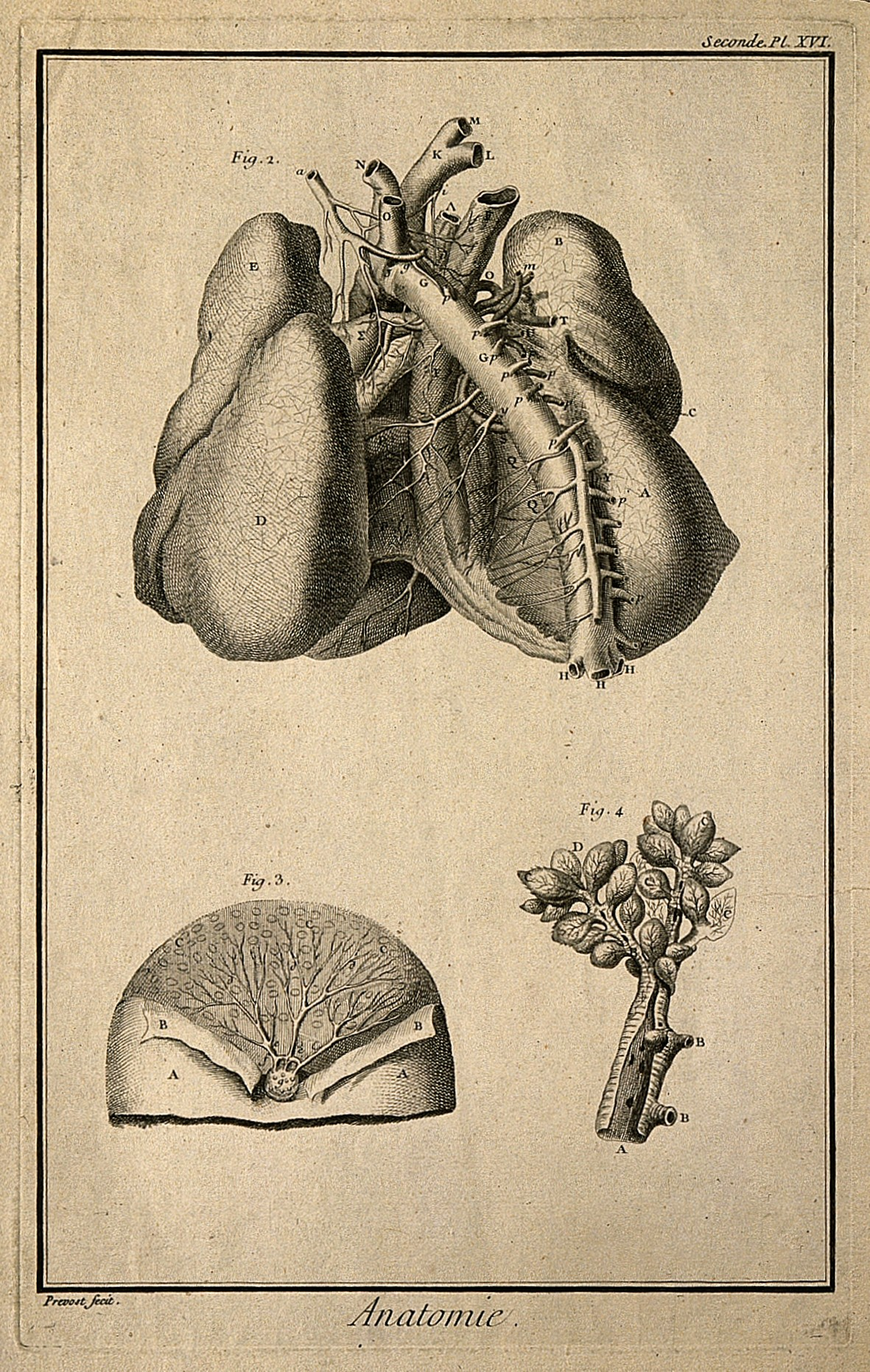 The arteries and lungs (fig. 2), after Haller; the breast (fig. 3), after Nuck; branch of the bronchi (fig. 4), after Bidloo. Engraving by Prevost, 1762. Iconographic Collections Keywords: Albrecht von Haller; Jean Le Rond d' Alembert; Anton Nuck; Benoit Louis Prevost; Denis Diderot